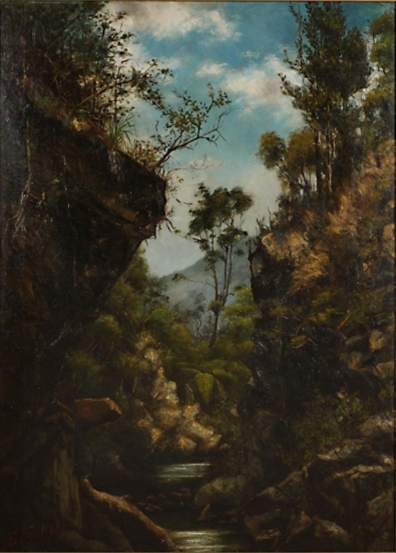 Bushstream Wainuiomata Sperry nz landscape 1920 - Donated to then Whangarei Borough Council by the artist's husband Capt. Gilbert Mair in 1922.